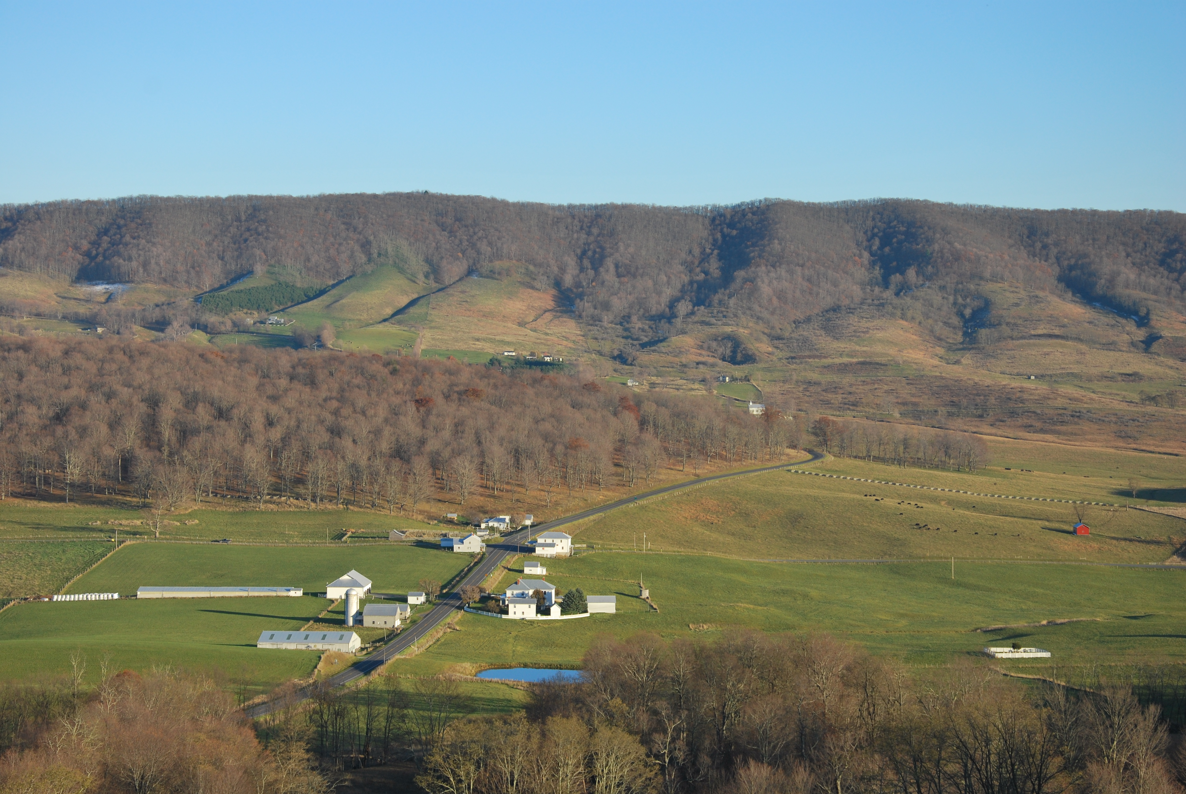 Photo of Hightown, Virginia taken from US 250 overlook on Lantz Mountain.